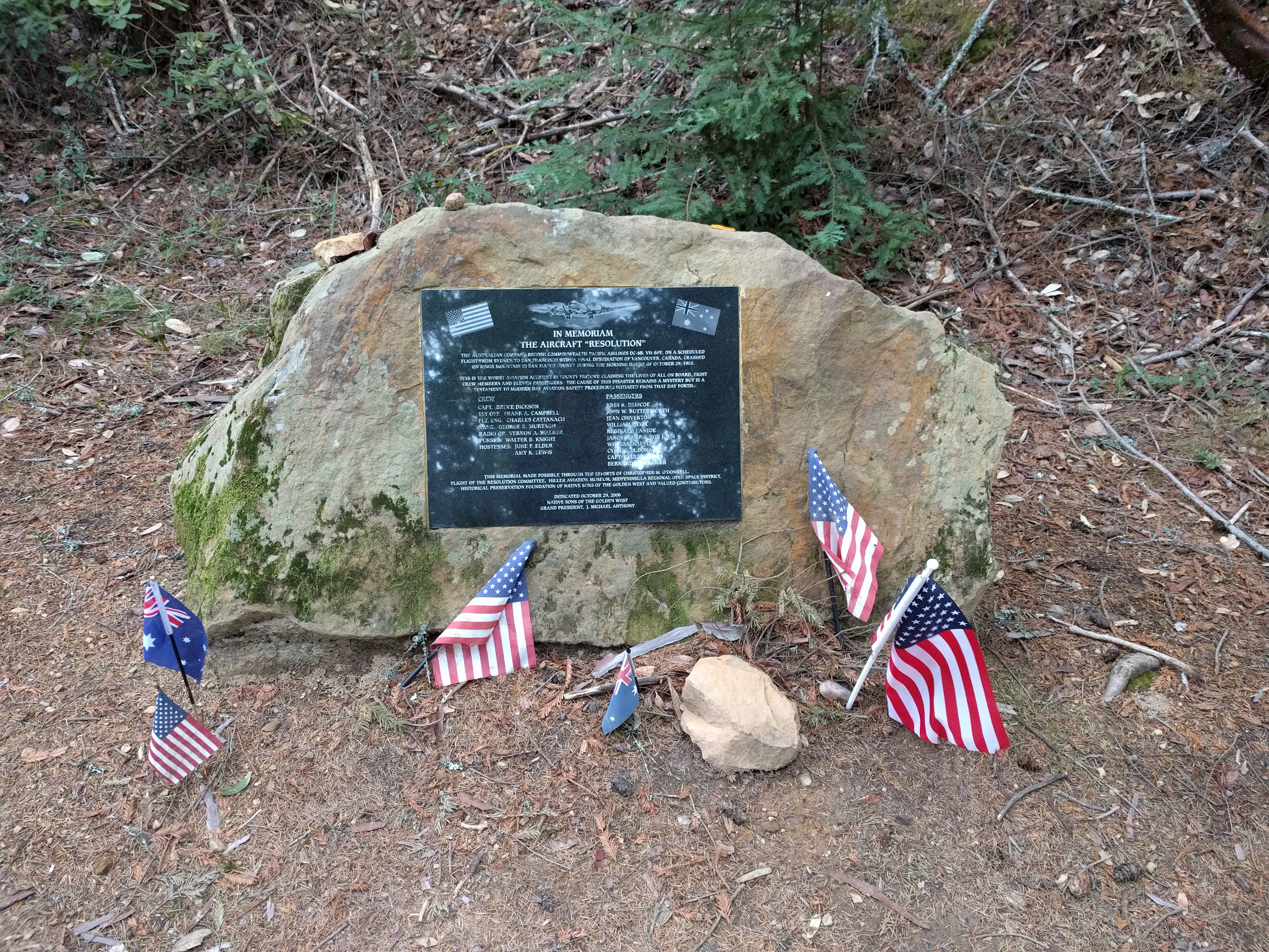 Photo of a memorial to the victims of the BCPA Flight 304 crash in El Corte de Madera Open Space Preserve, Woodside, CA.